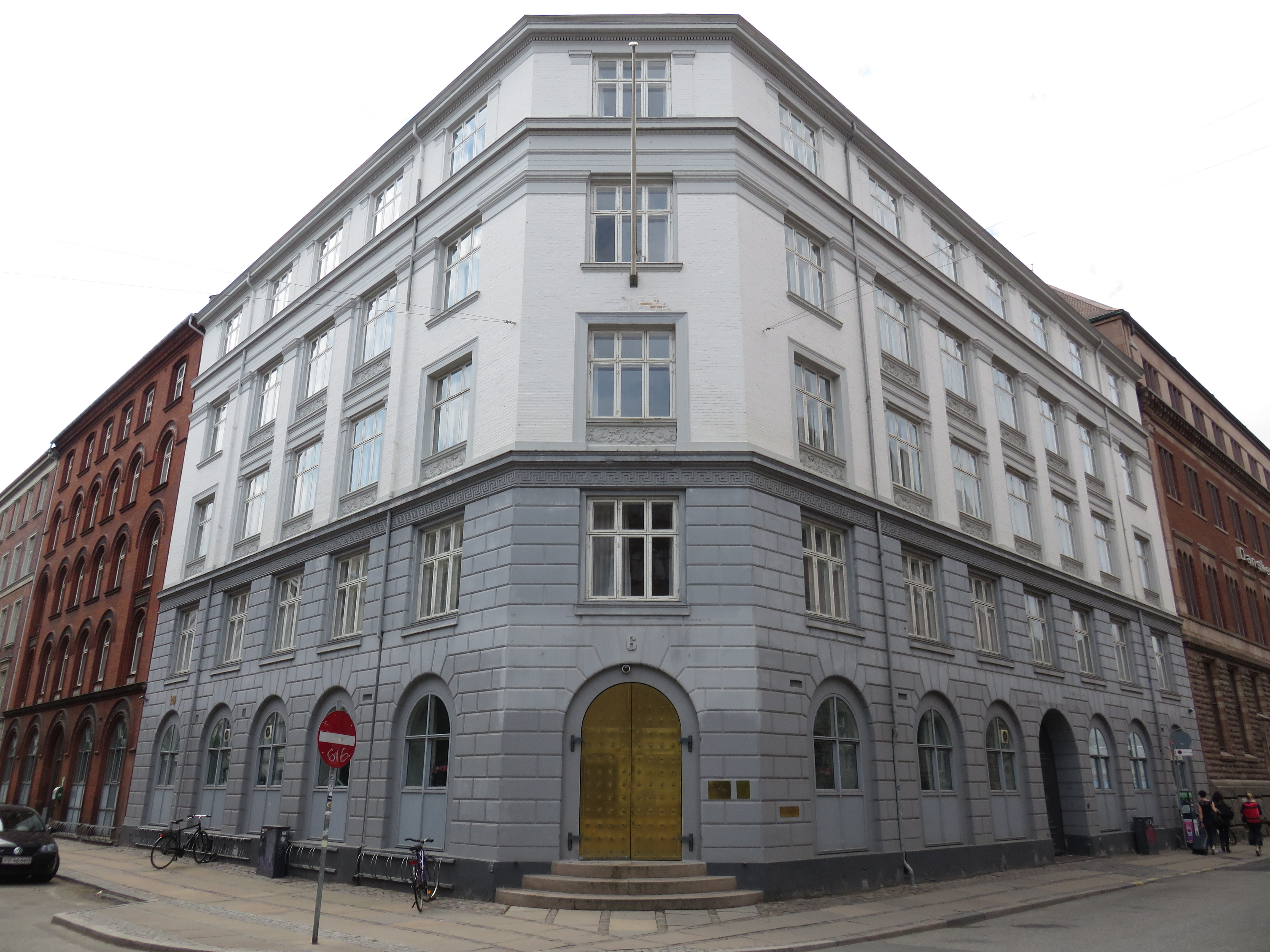 Danish Ministry of Health in Copenhagen, Denmark in 2018